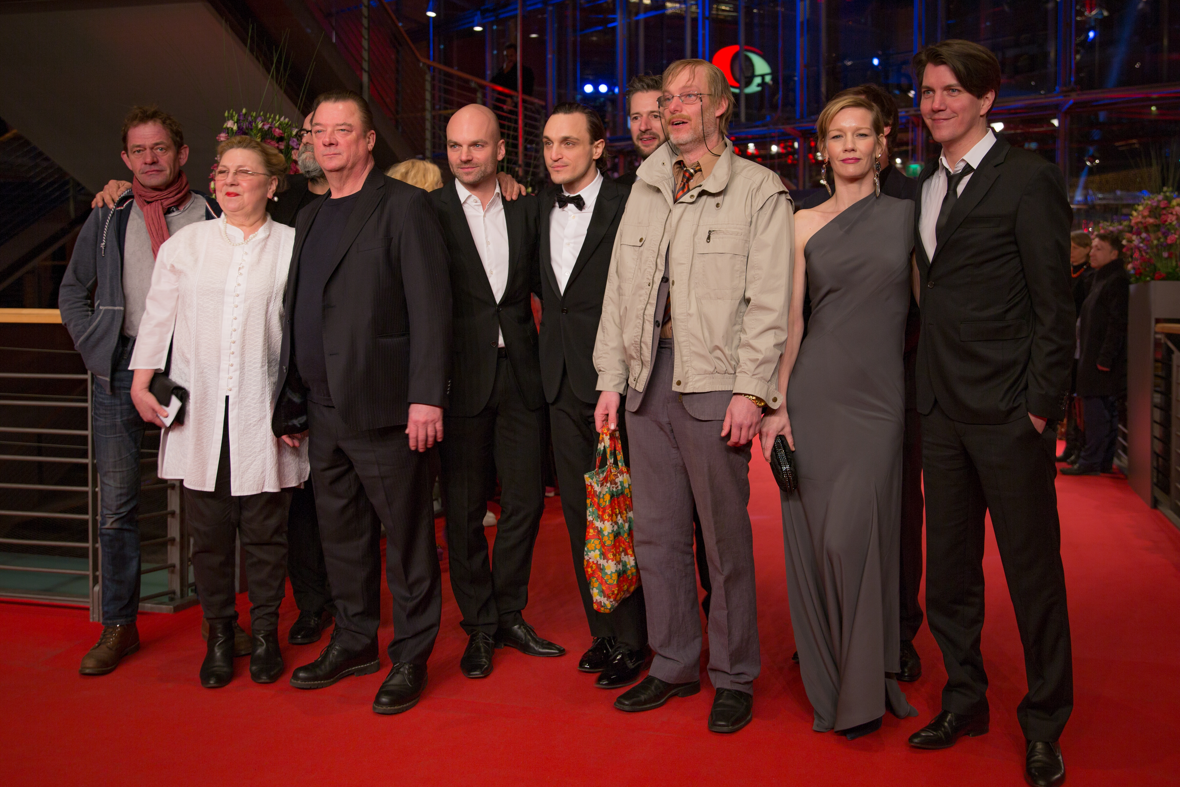 The film team of In the Aisles on the red carpert before the premier of the movie In den Gängen at the Berlinale 2018